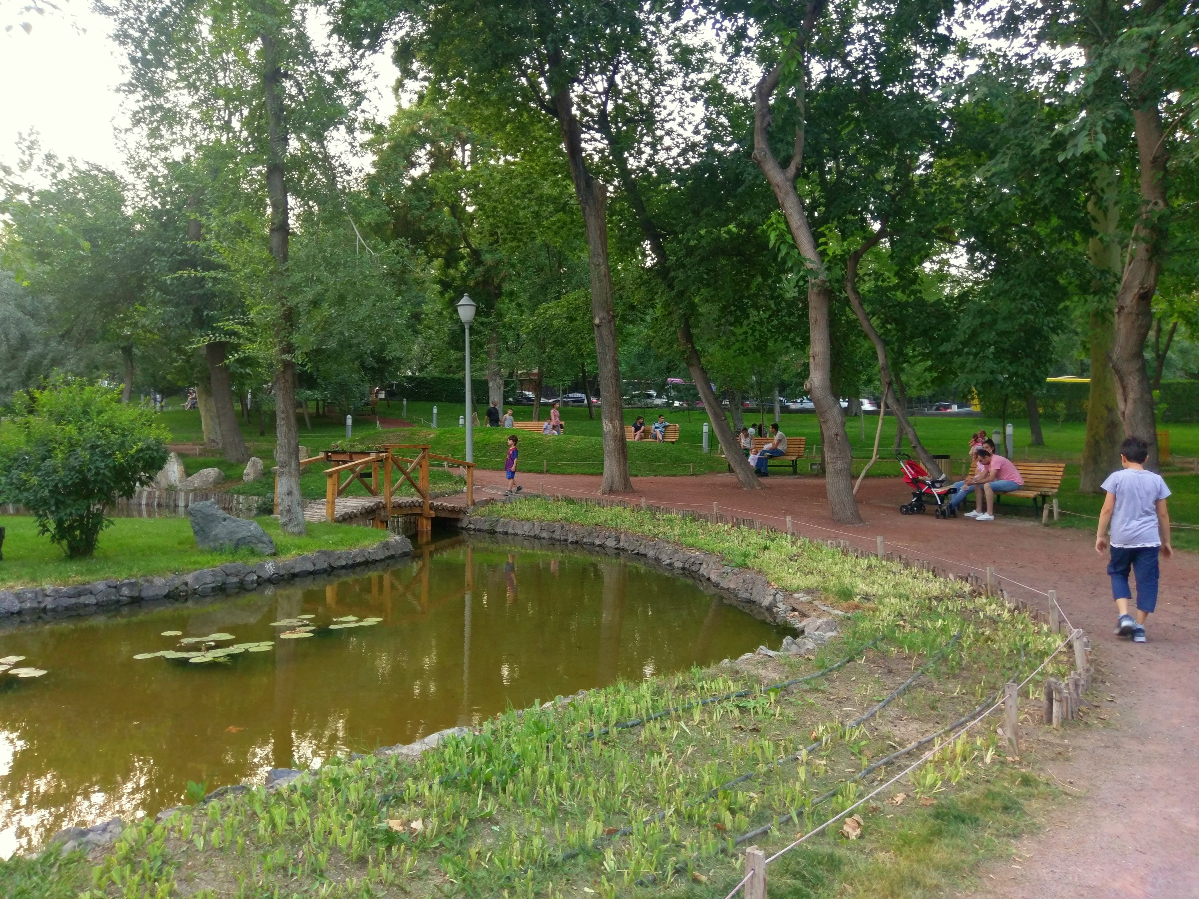 Lovers' Park Yerevan